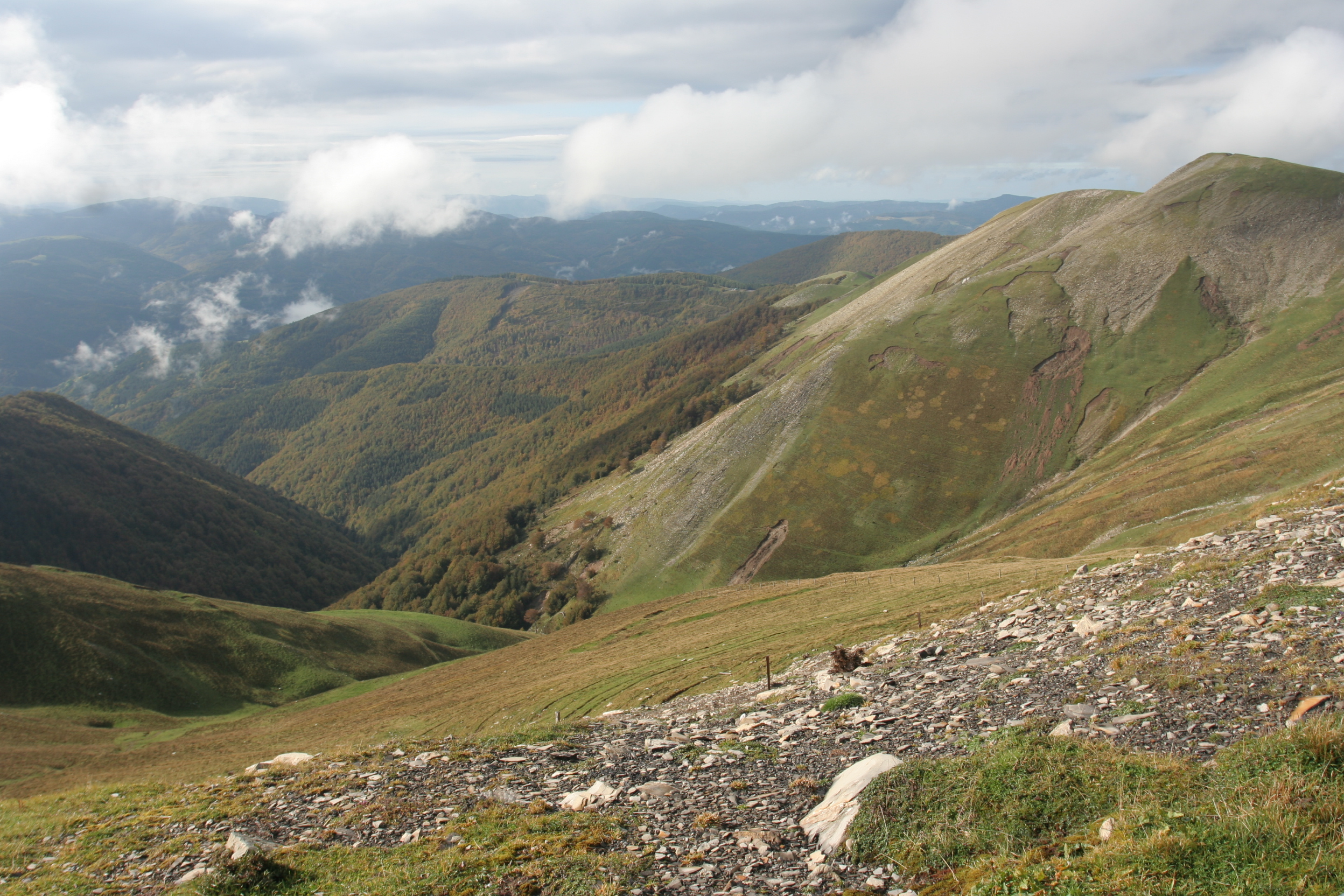 view from Larrau towards Navarre